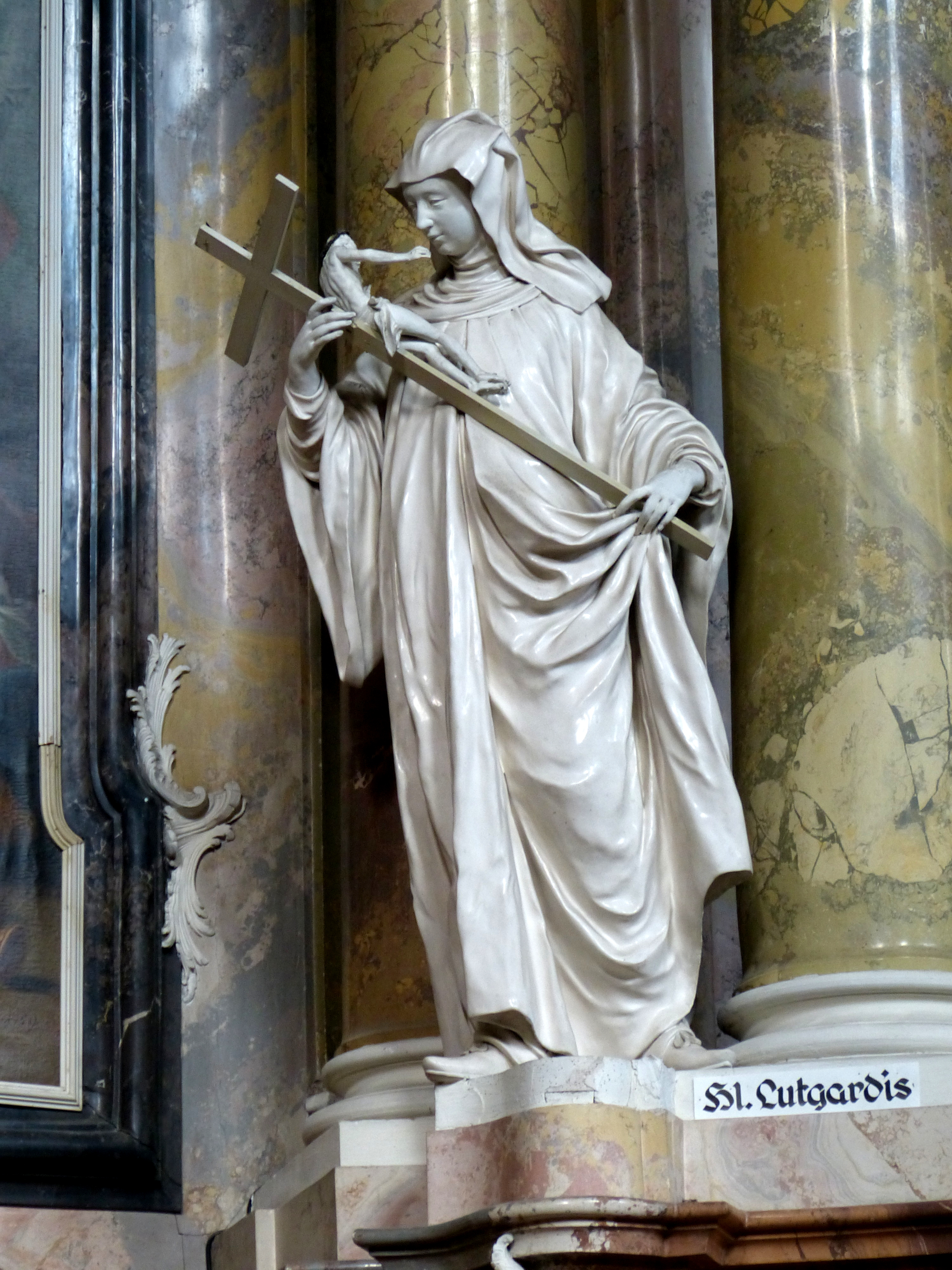 Engelhartszell ( Upper Austria ). Engelszell monastery church ( 1754-64 ) - Altar of the Guardian angel: Statue of Saint Lutgarde by Johann Georg Üblhör.